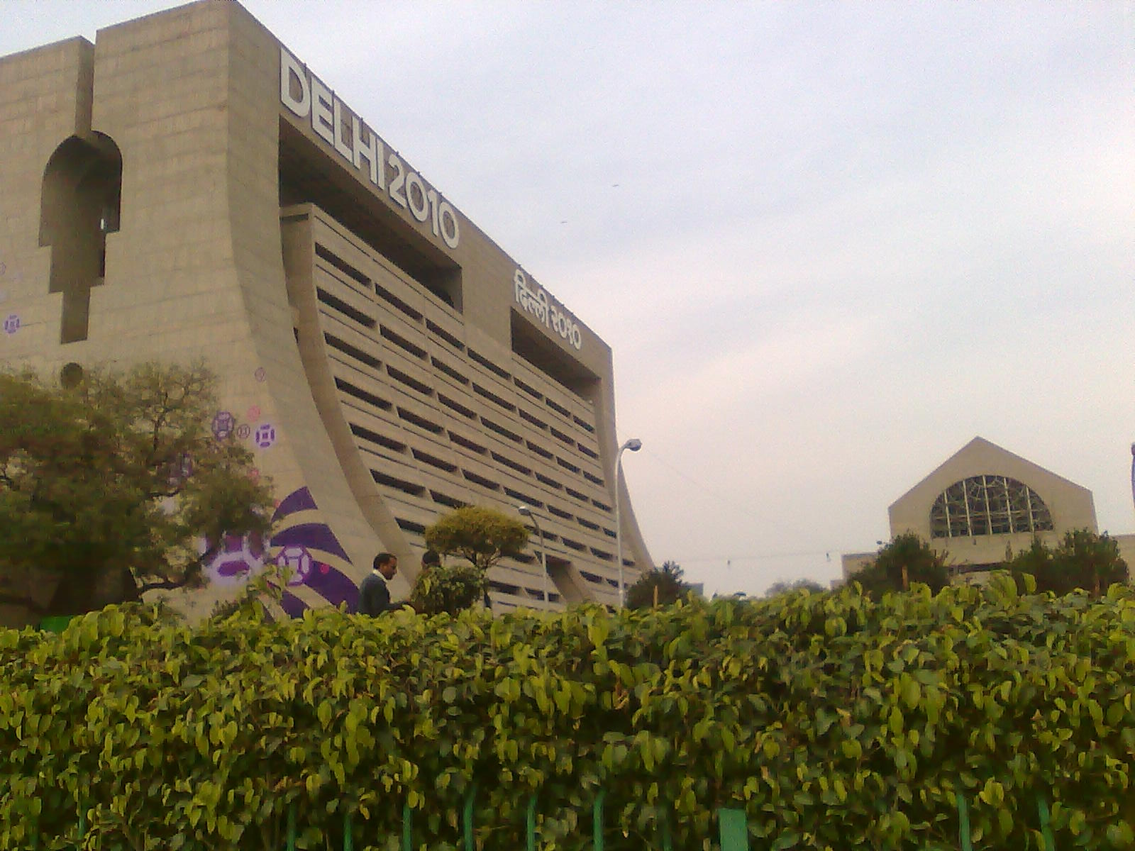 CWG Delhi 2010 OC Building